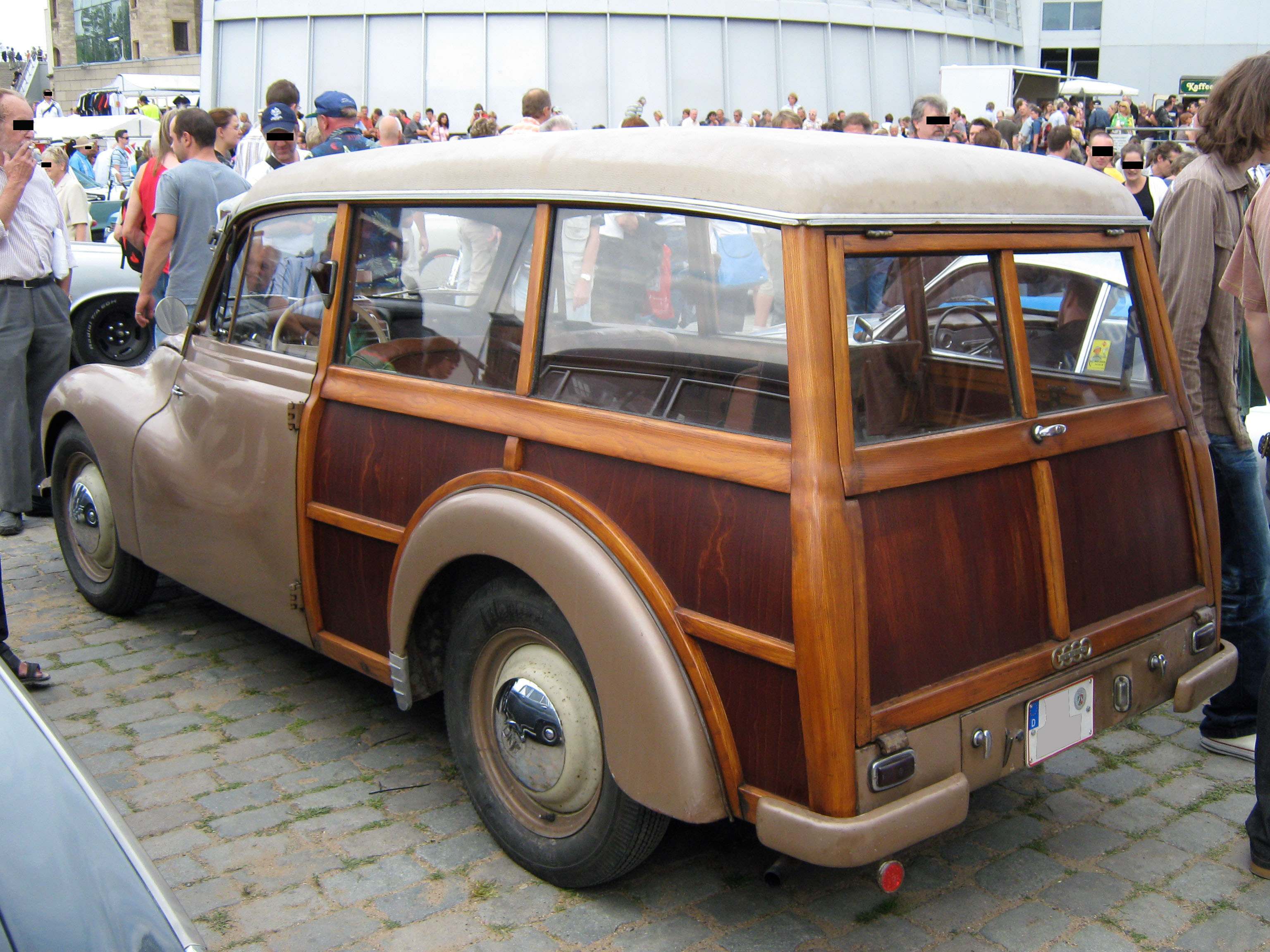 1951 DKW F89 Universal Meisterklasse